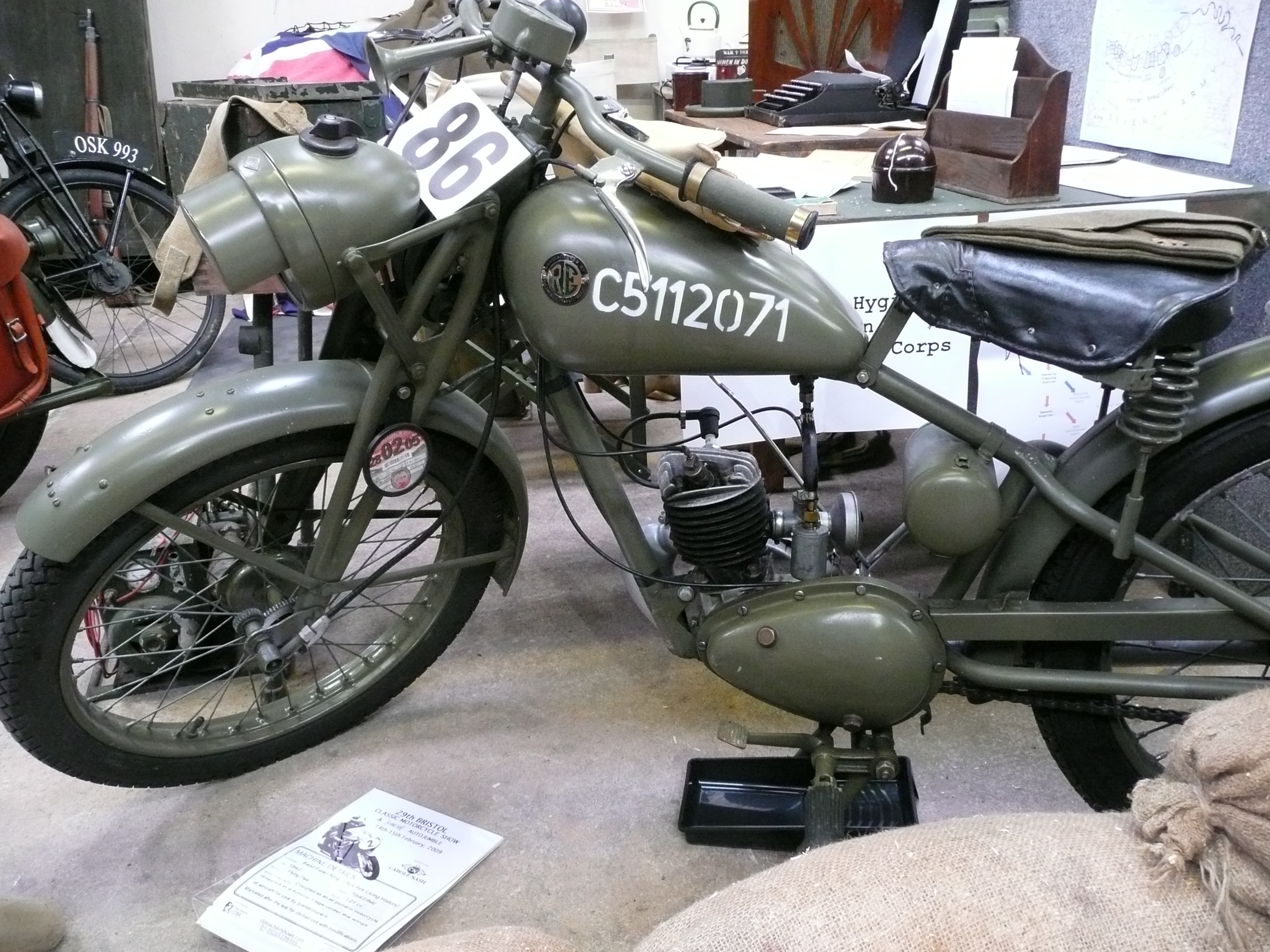 Royal Enfield Flying Flea 1942